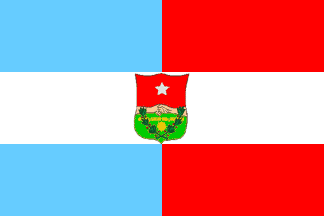 Flag of Entre Rios province, Argentina, 1833-1853, with arms